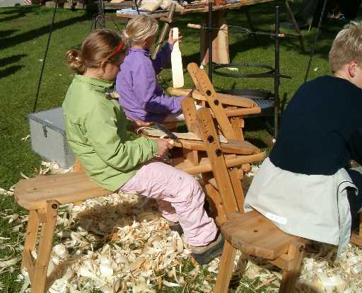 A modern fold-up shave horse. Dansk Jagt- og Skovbrugsmuseum i Hørsholm 2006